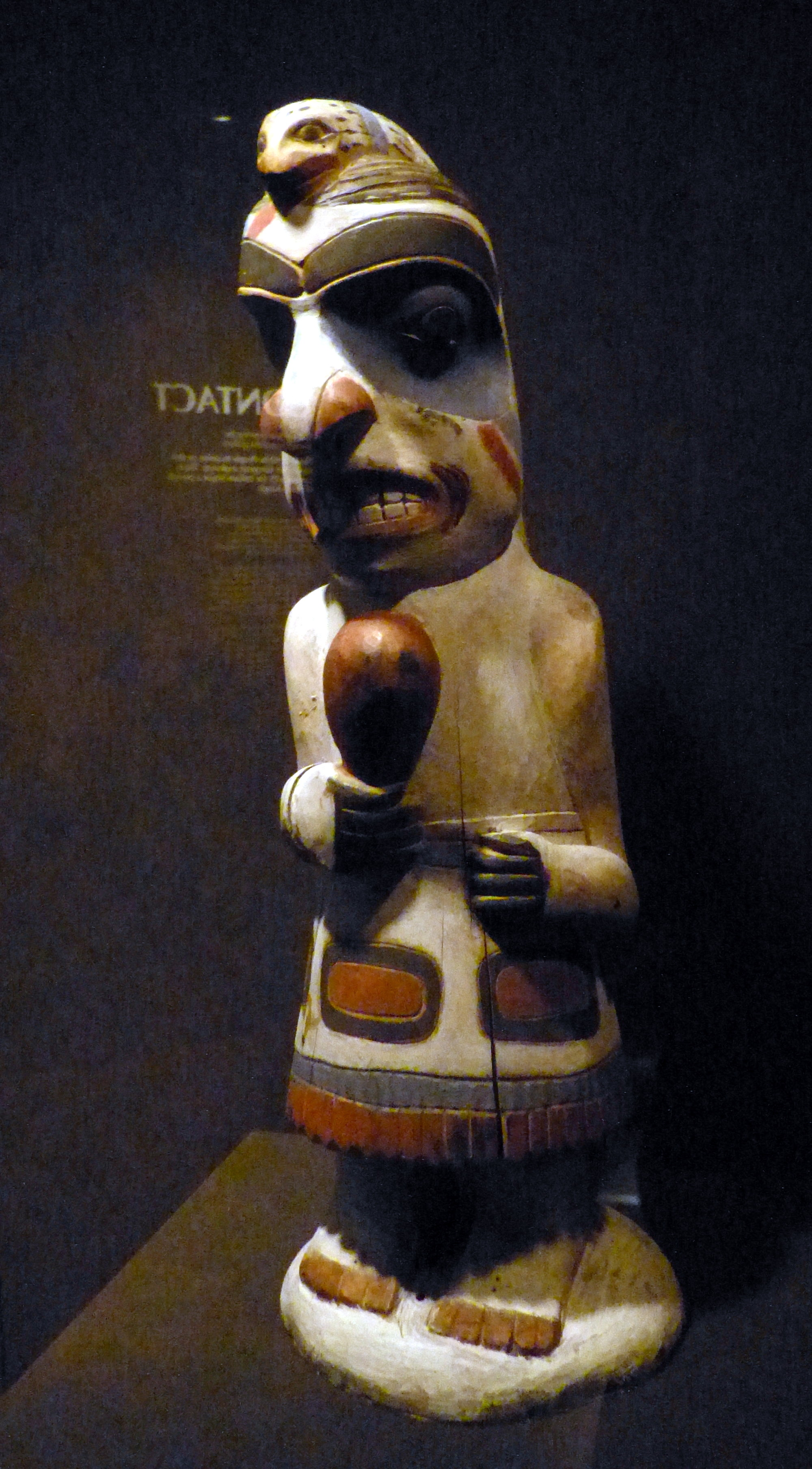 Victoria ( British Columbia ). Royal British Columbia Museum - First People Gallery: Haida statue of a shaman